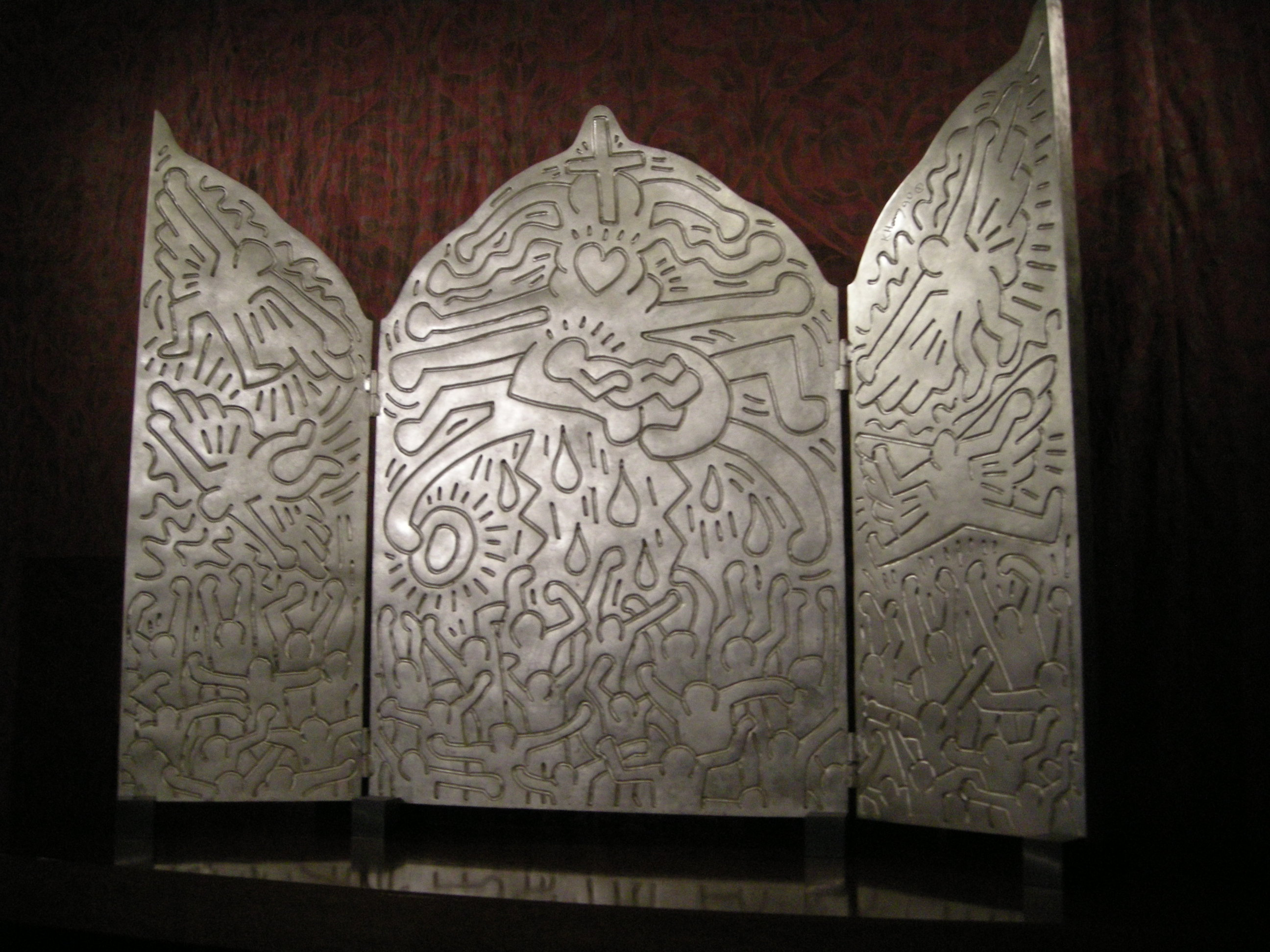 Grace Cathedral 10 aids victim chapel